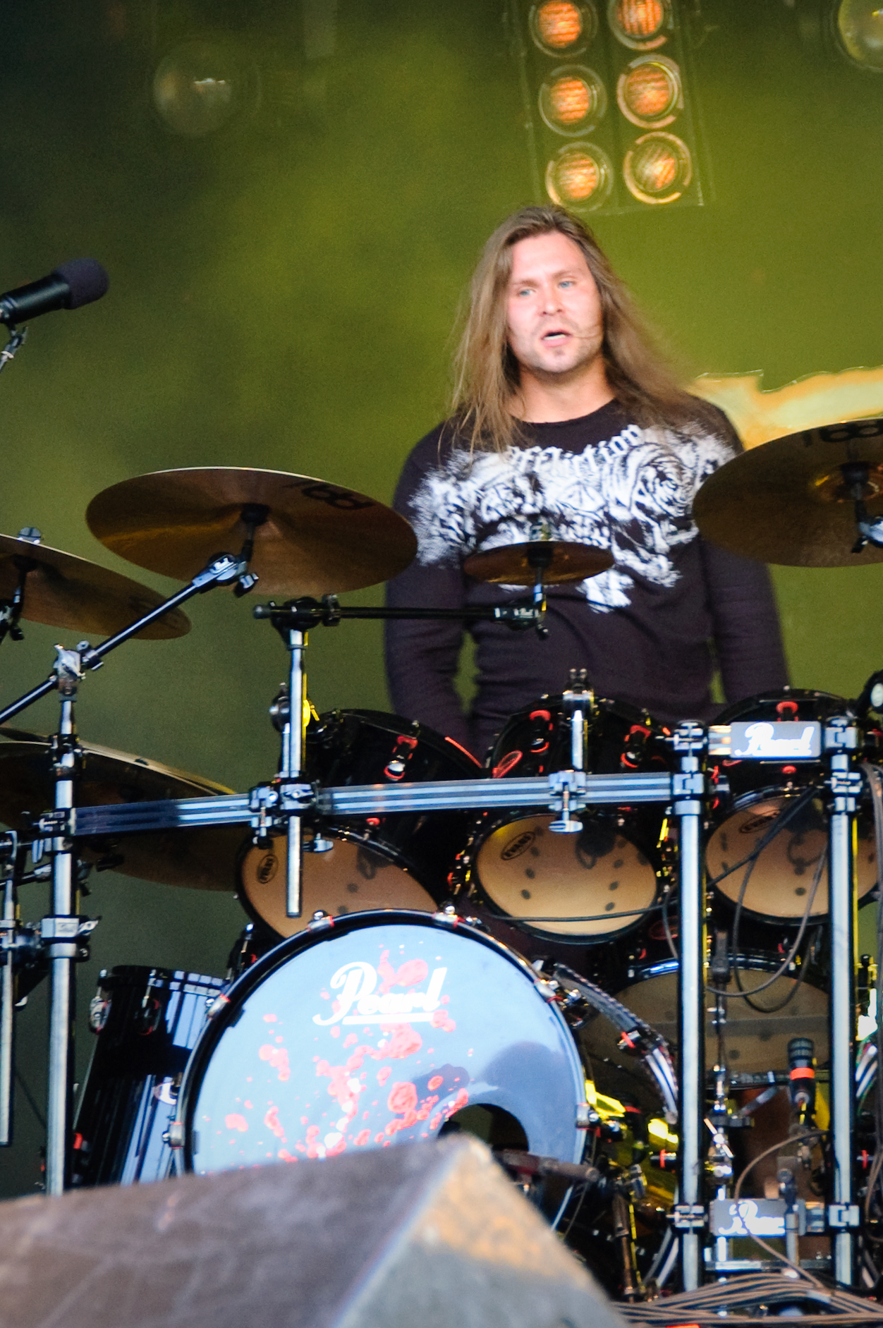 Drummer Jaska Raatikainen of Children of Bodom performing at the Ilosaarirock festival in Joensuu, Finland.